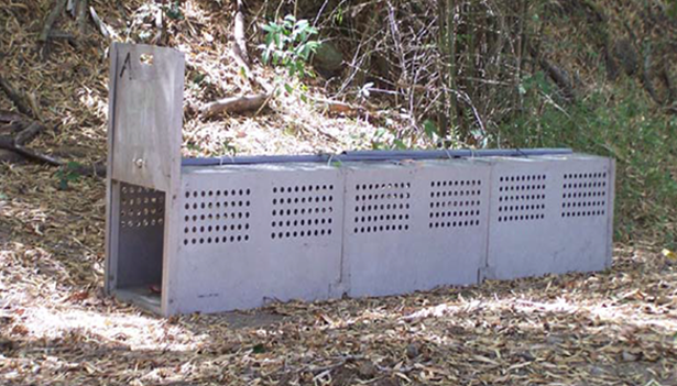 A cage trap used to capture Komodo dragons.